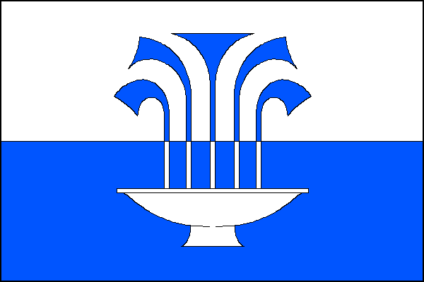 Municipal flag of Lázně Toušeň market town, Prague-East District, Czech Republic.